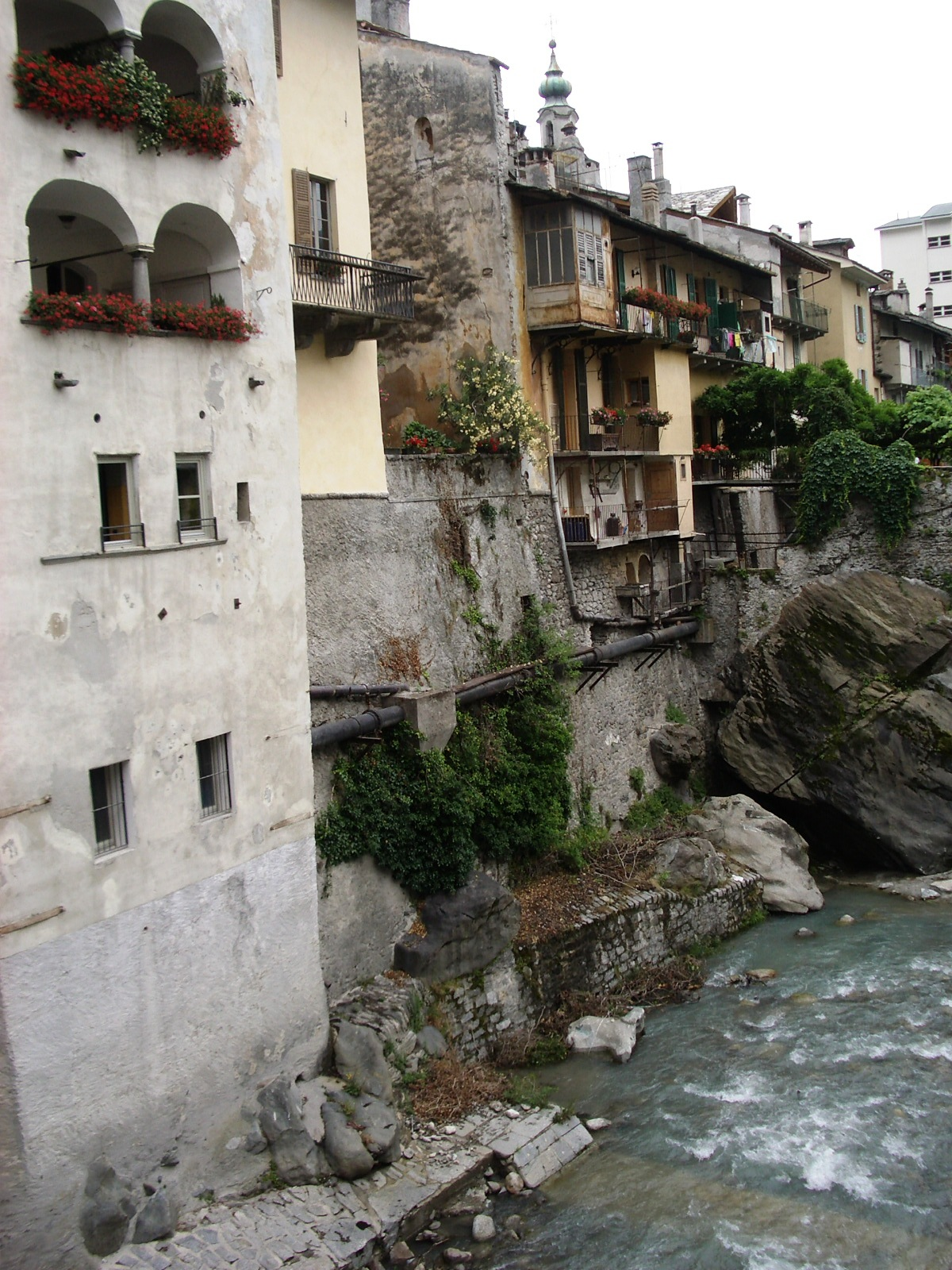 Chiavenna, Italy